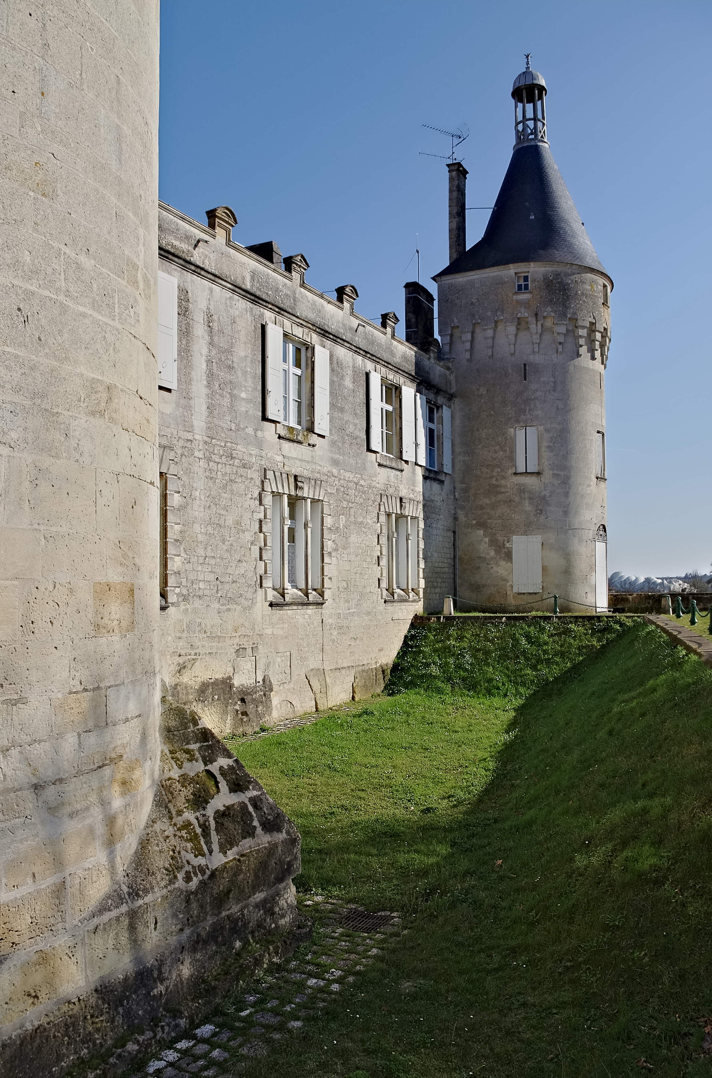 South tower and partial view of the moats (formerly deeper). Castle of Jonzac (17th-19th centuries), Charente-Maritime, France. This building is en partie classé, en partie inscrit au titre des Monuments Historiques. .